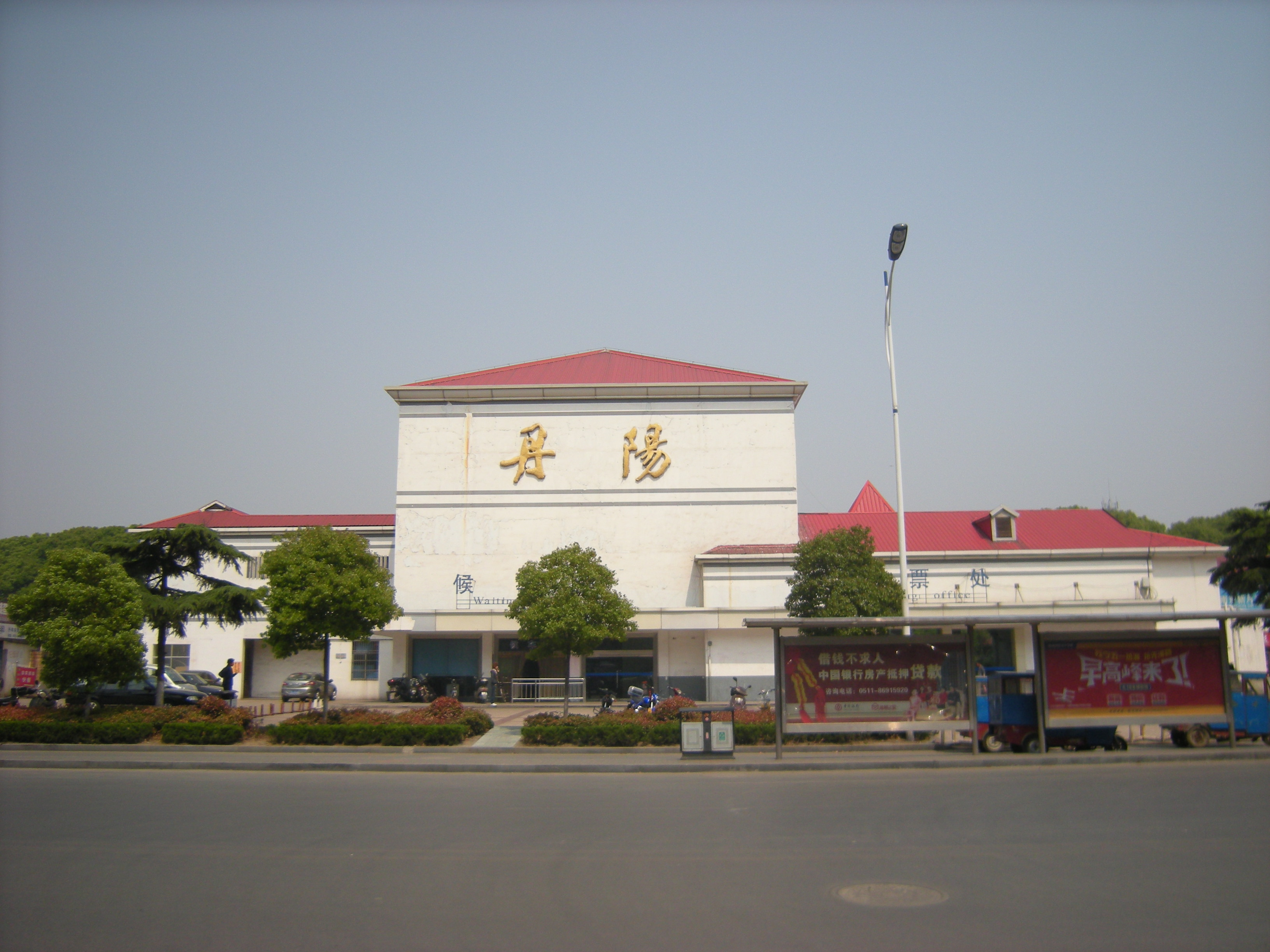 Danyang Railway station